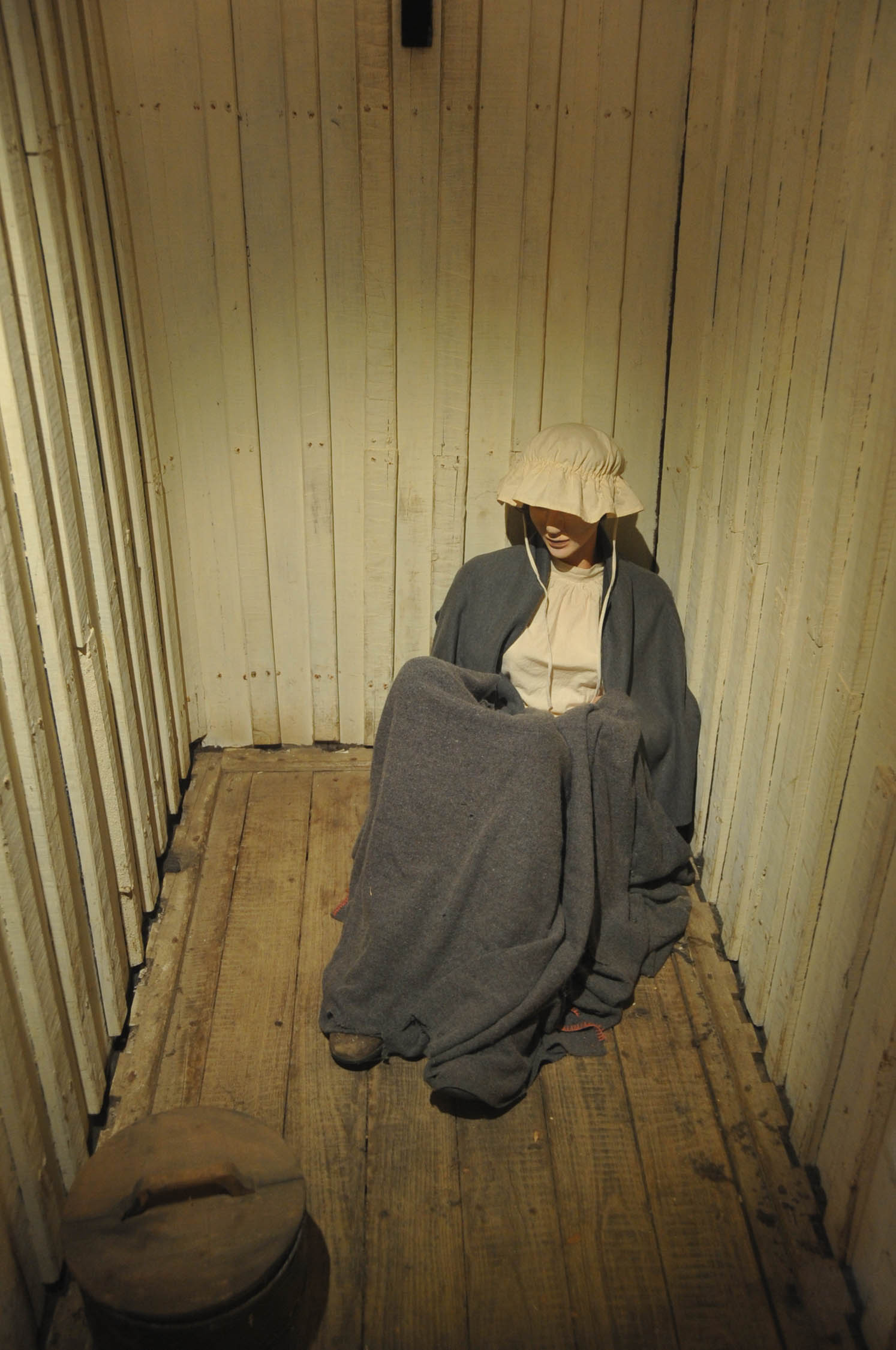 WOMEN WERE PLACED IN THIS JAIL FOR GOSSIPING